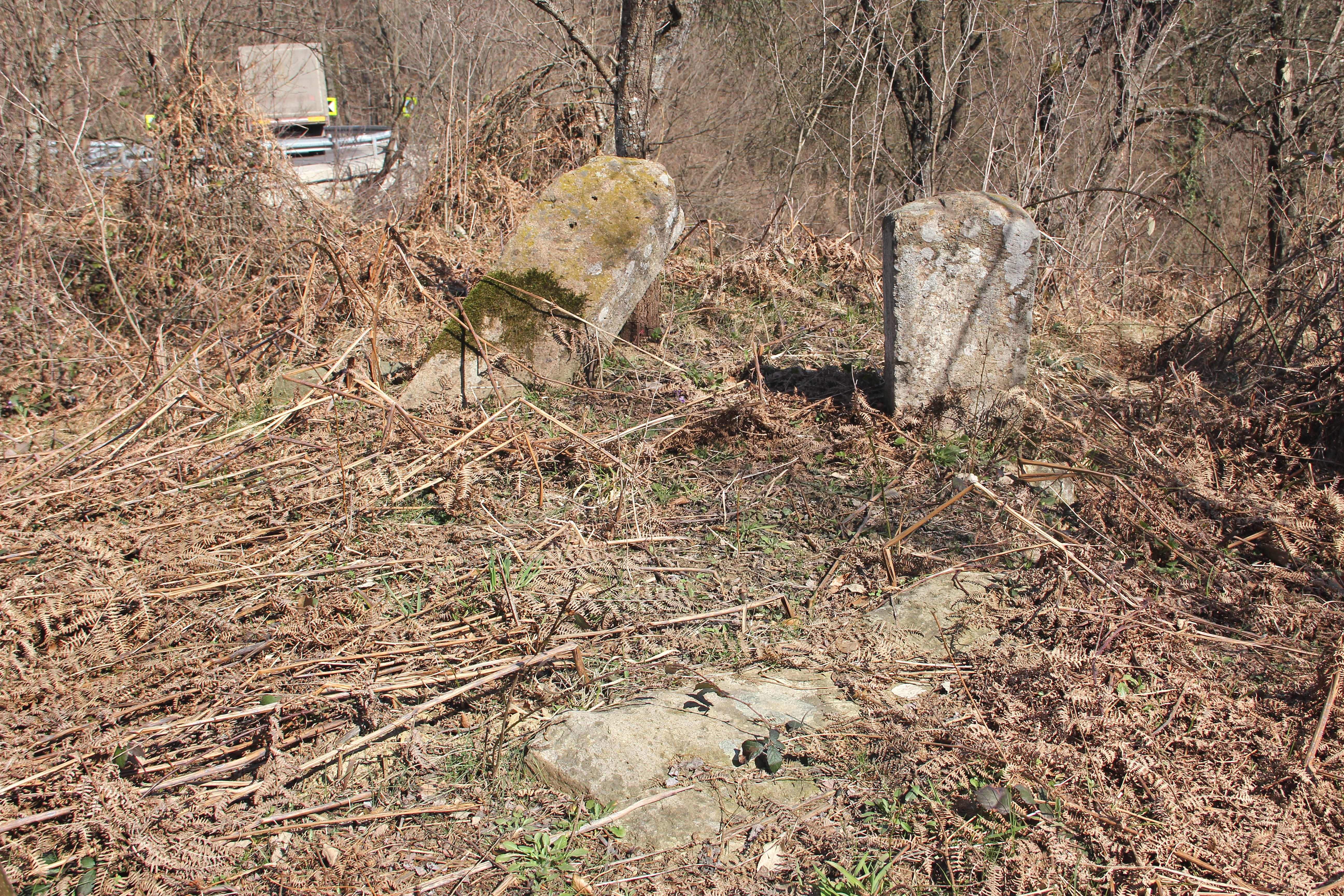 Old tombstones near the road Rudnik-Jarmenovci (municipality of Gornji Milanovac).